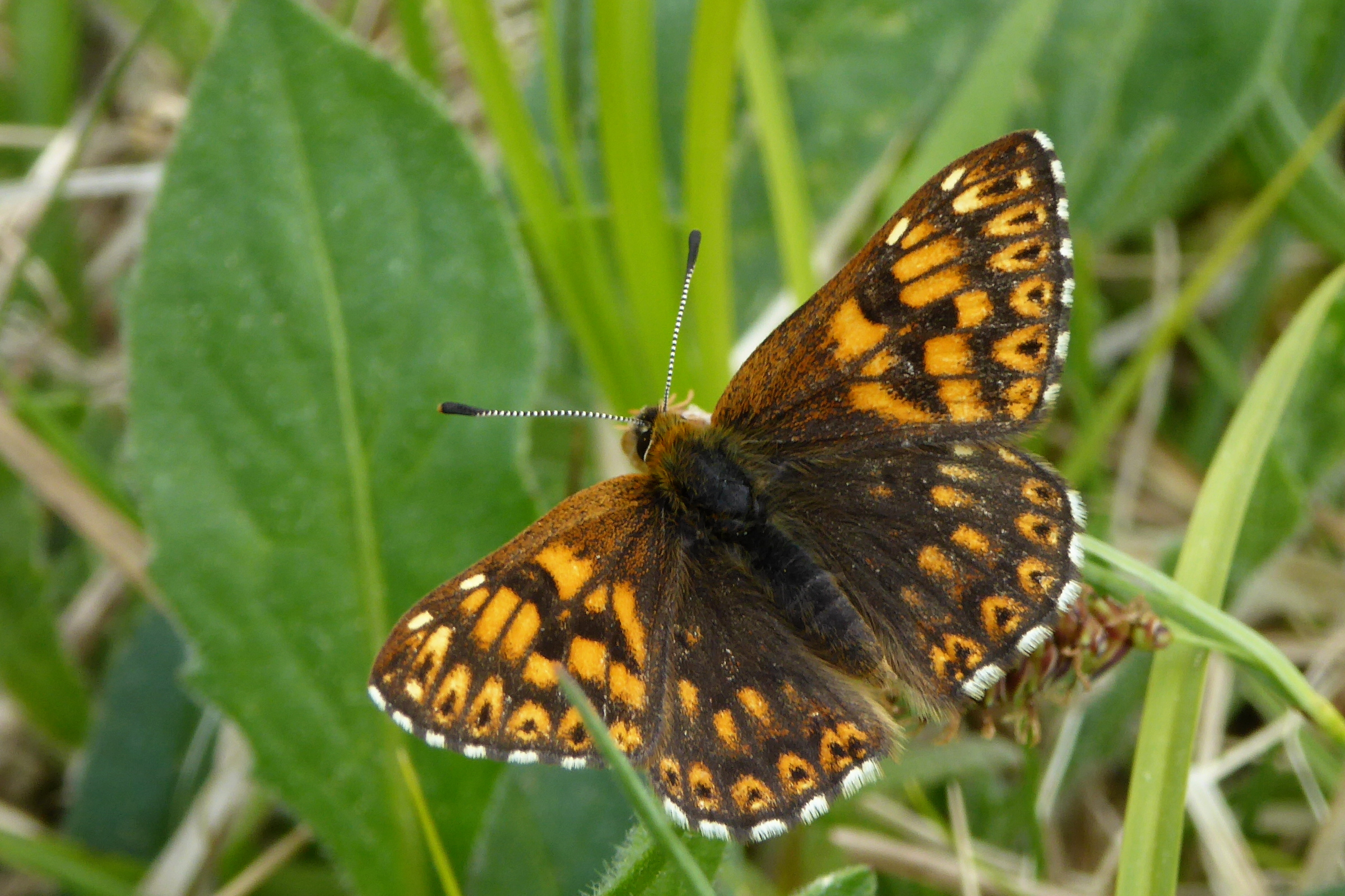 Schlüsselblumen-Würfelfalter im Naturschutzgebiet Bühlchen am Hohen Meißner, Nordhessen